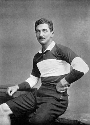 A photograph of the English sportsman C. B. Fry